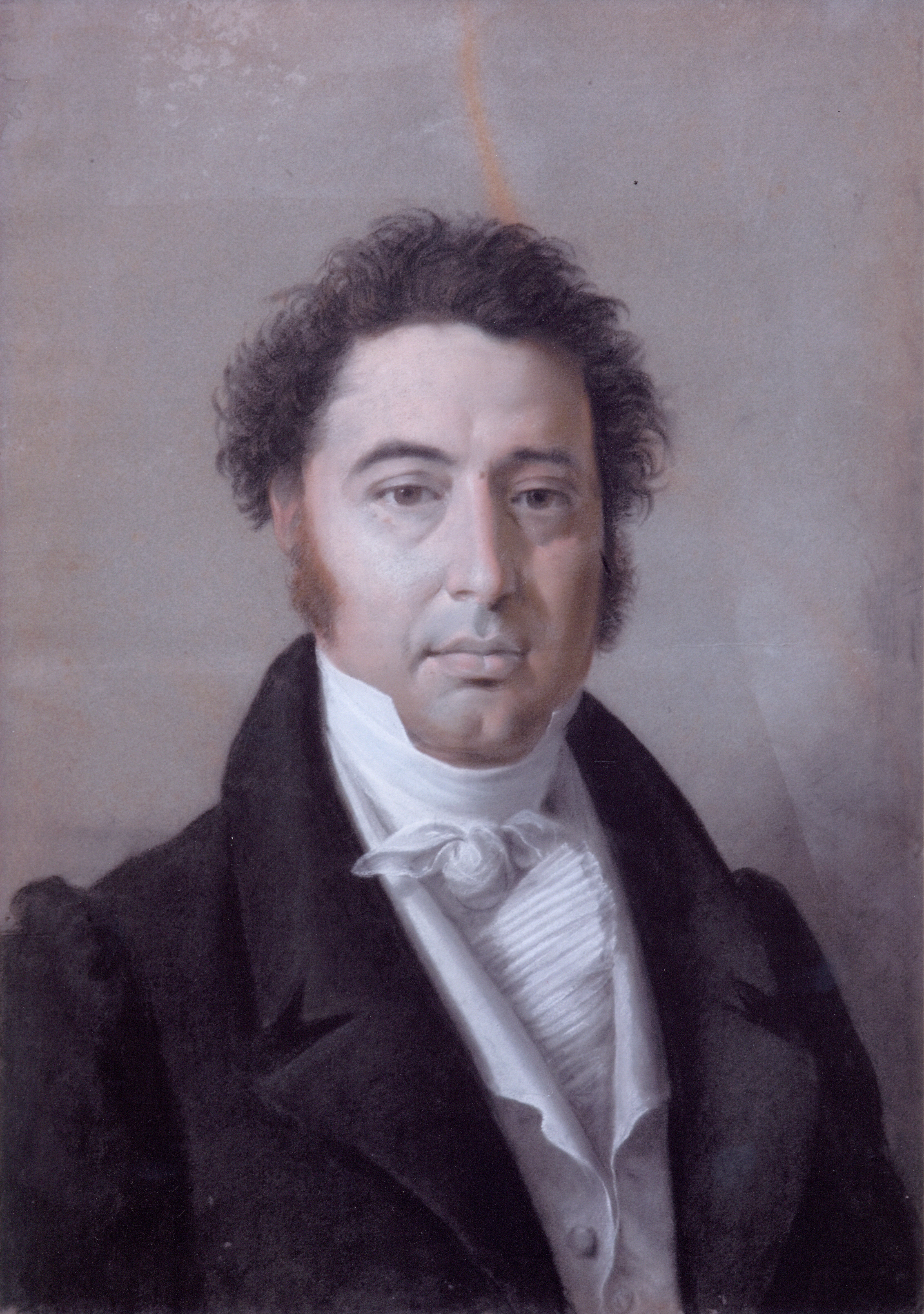 Pere Gil i Babot (in spanish Pedro Gil y Babot) was a Catalan merchant, art collector and politician (1783-1853).